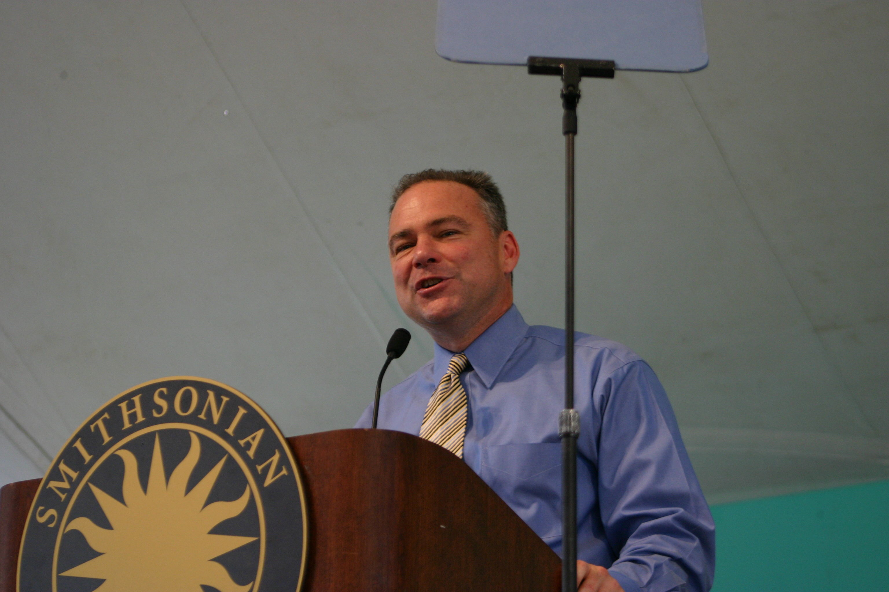 Honorable Tim Kaine, Governor of Virginia . 2007 Smithsonian 41st Folklife Festival . . Opening Ceremony . National Mall . Washington DC . Wednesday afternoon, 27 June 2007 . . Elvert Xavier Barnes Photography